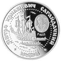 Petro Konashevych-Sahaidachnyi on a Ukrainian Hryvnia coin.